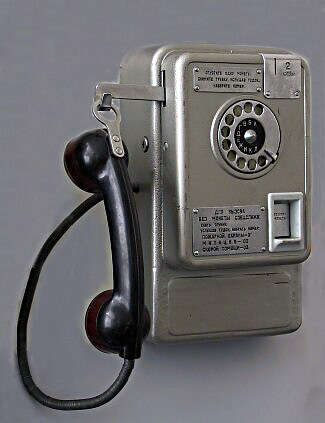 Payphone USSR 196x